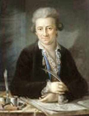 Johann Christian Wilhelm Beyer (1725-1796) portrayed by his wife Gabrielle [Gabriele] née Bertrand.